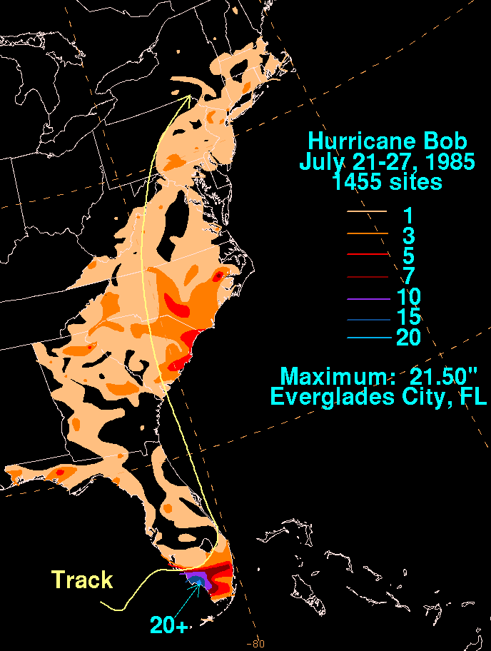 Storm total rainfall map of Hurricane Bob during July 1985.